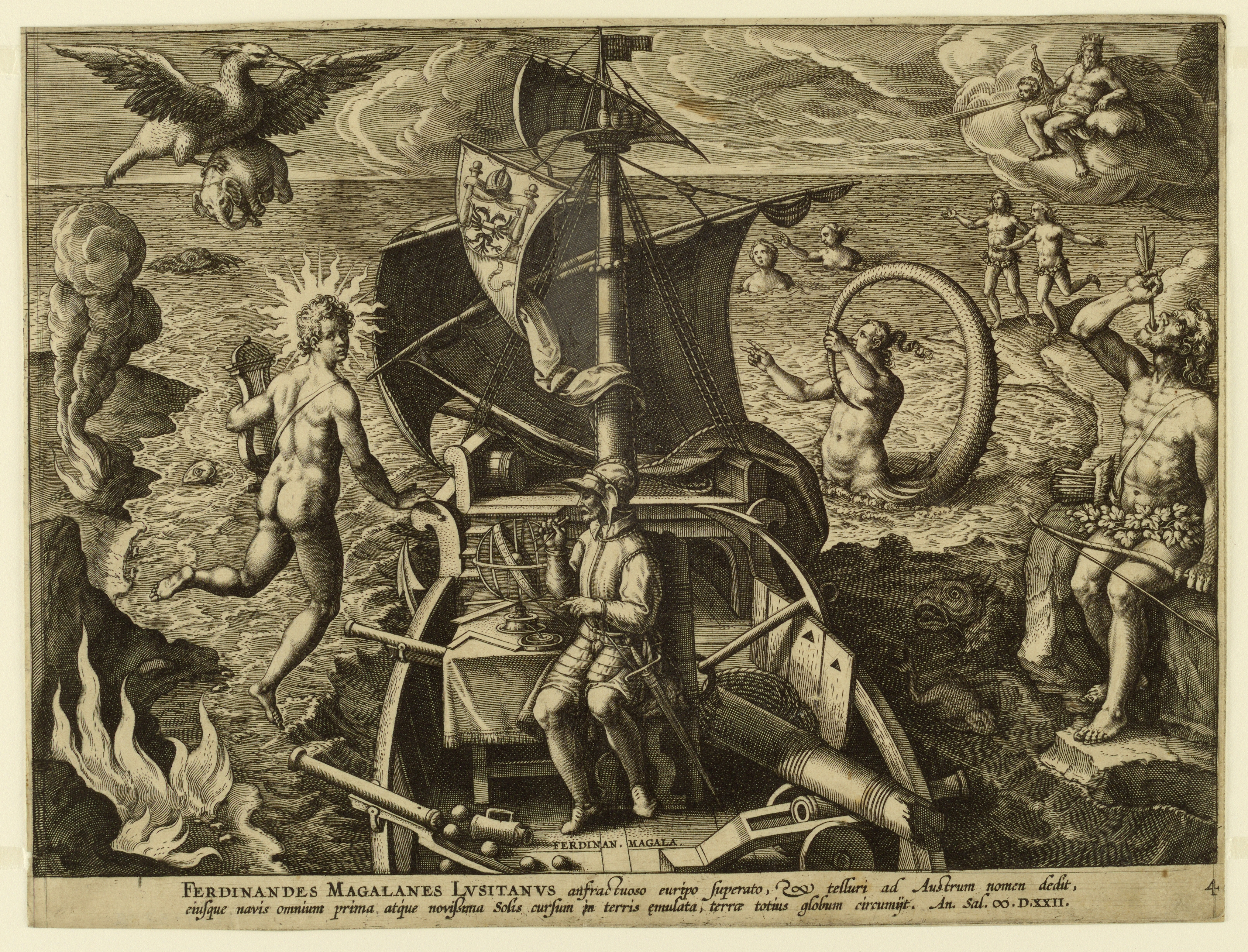 A navigator (Magellan) sits on the prow of the ship, facing left in profile. Sea monsters are visible in the waters at left and right. At right a figure is seated on a rock and forces an arrow down his throat.